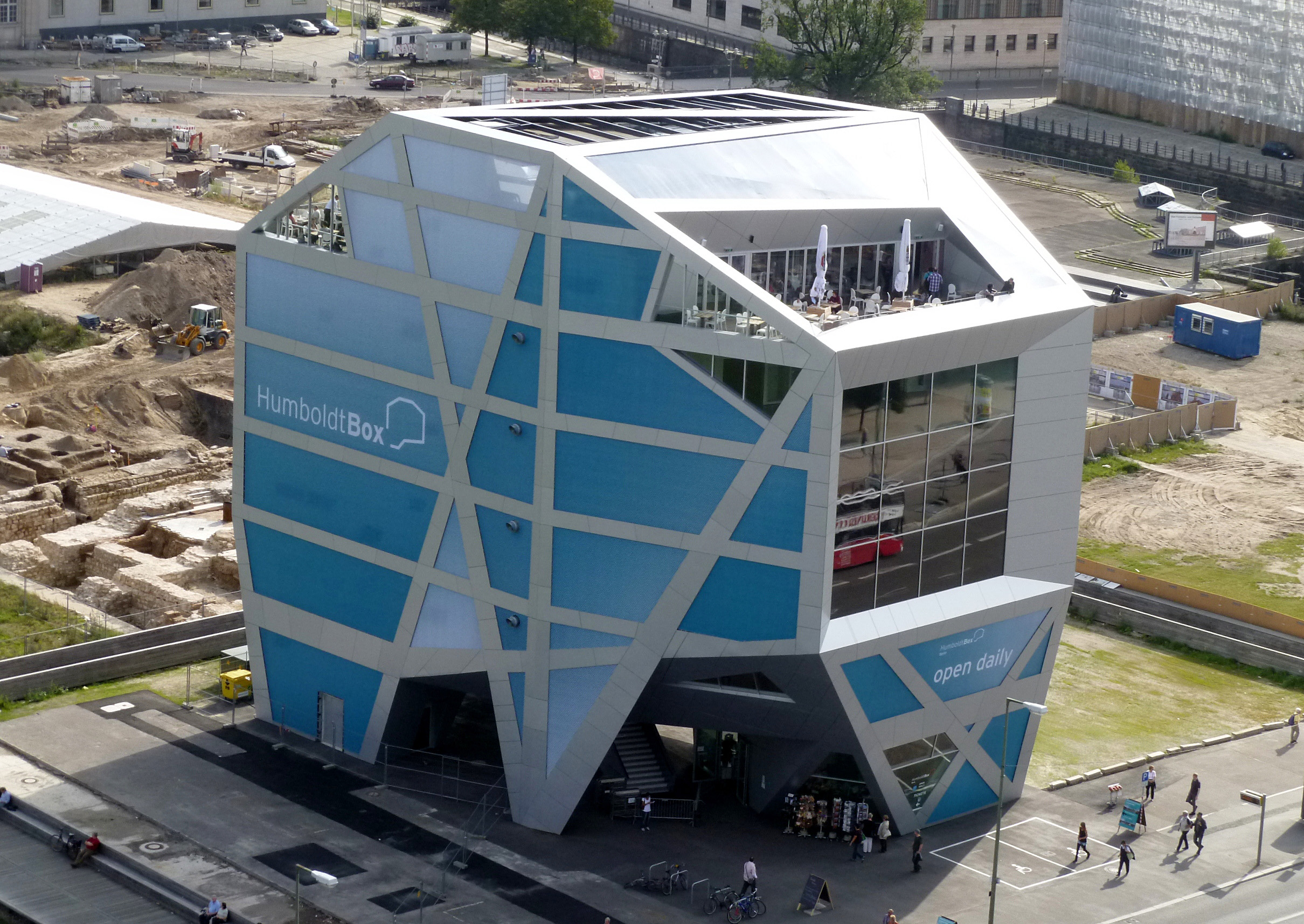 View on the Humboldt Box as seen from the cupola of the Berlin Cathedral; Germany